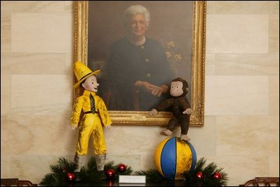 The White House 2003 Christmas decoration using the children's picture books Curious George as the theme.